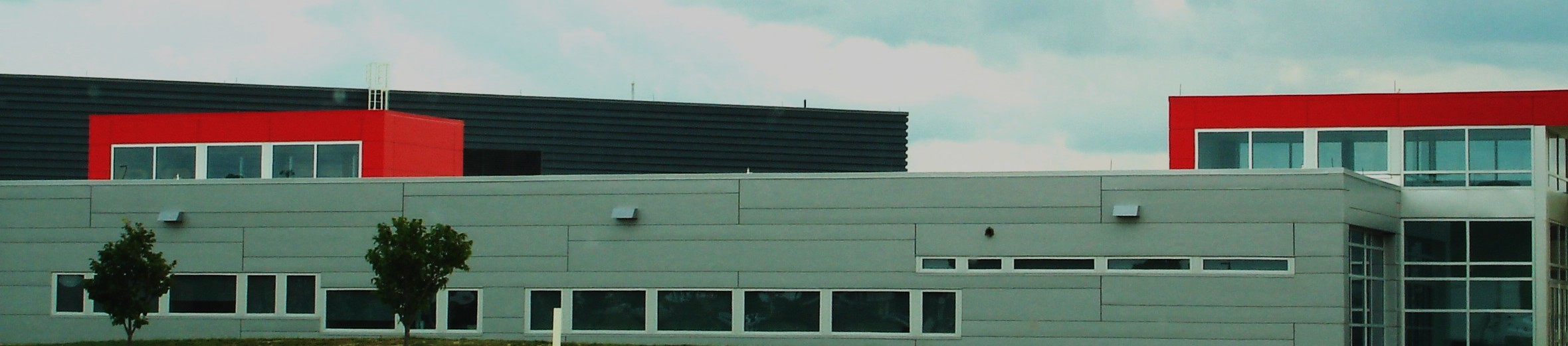 Ohio National Guard training center, Marysville, Ohio, United States